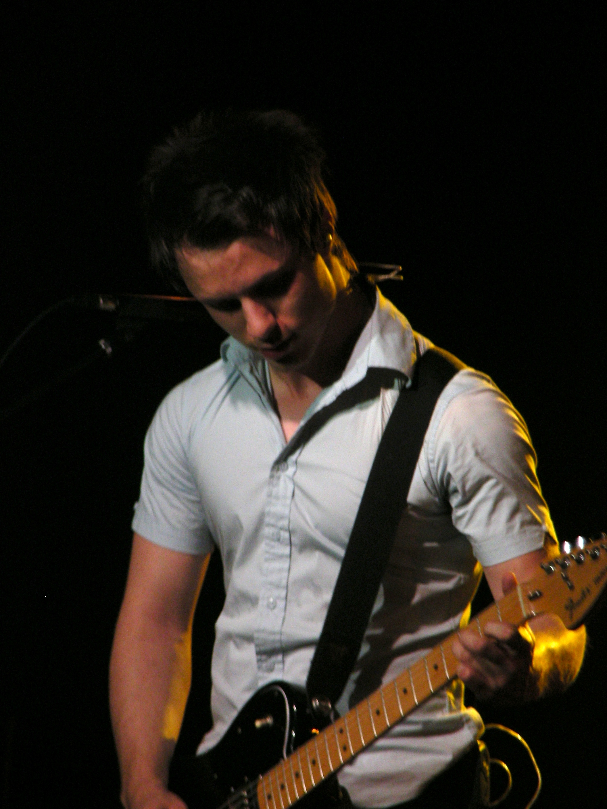 Josh Farro 2008-03-15